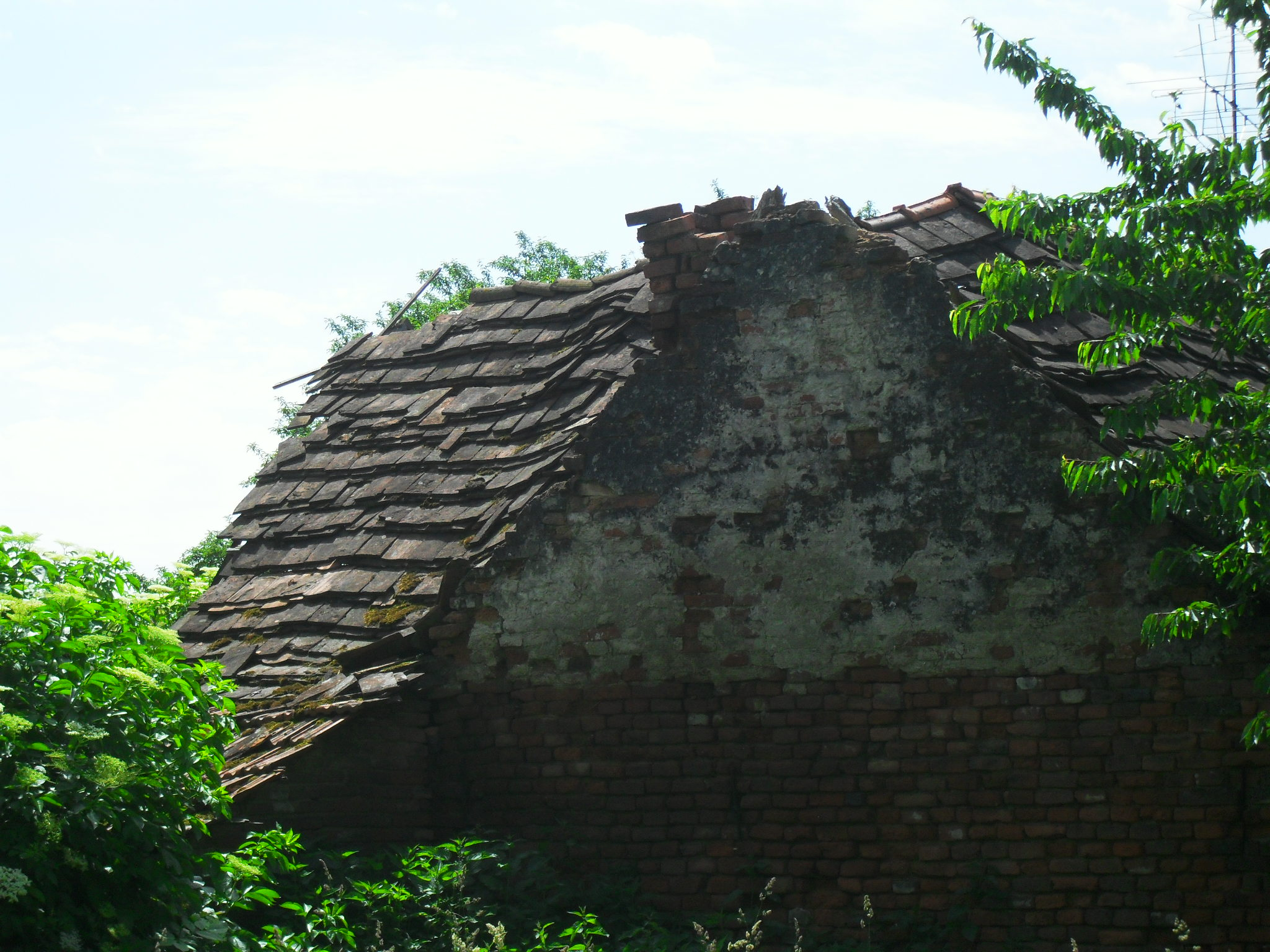 Old, crumbly house in Štrukovec, Međimurje Croatia